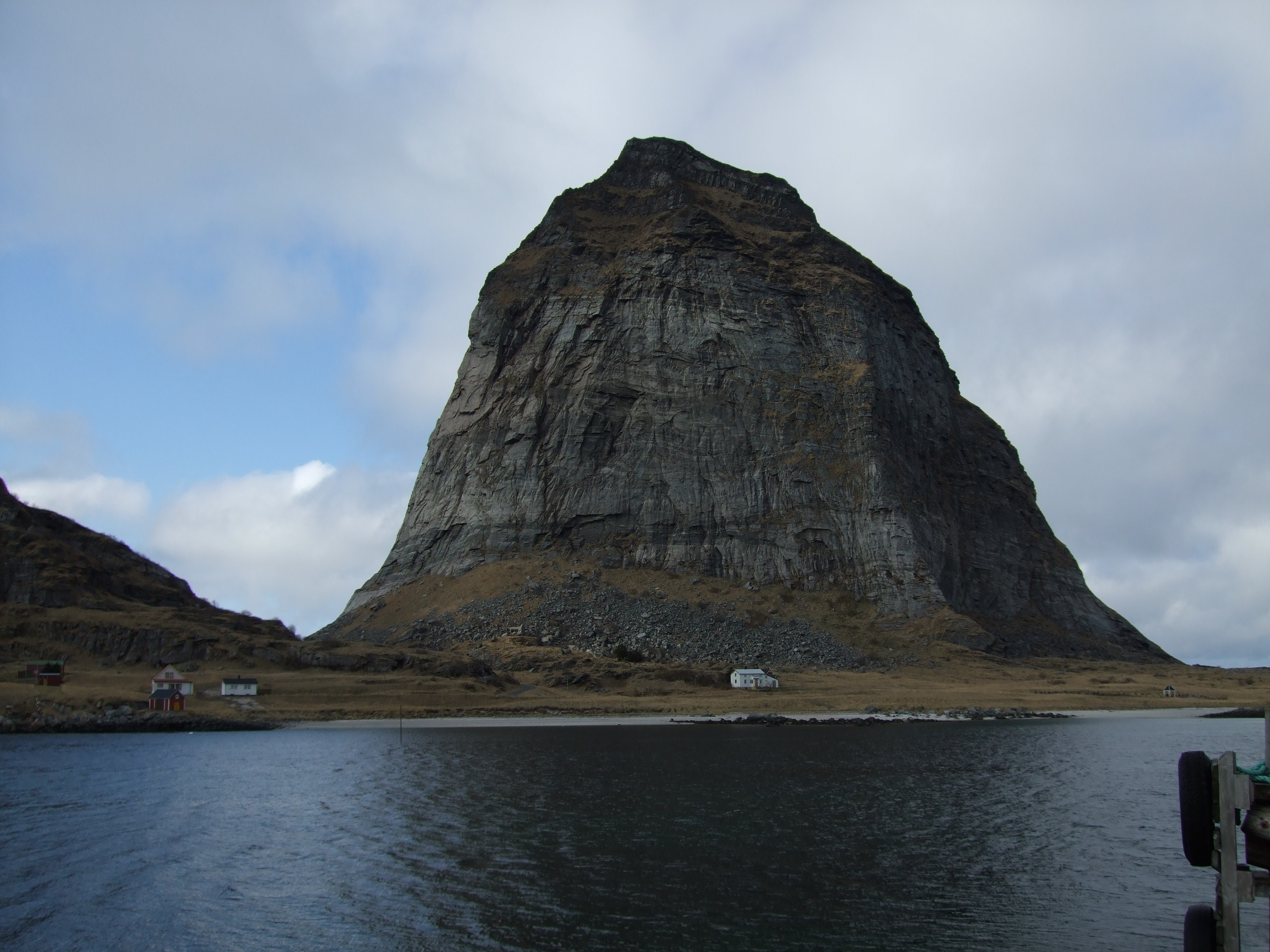 Mountain Traenstaven on Sanna island as seen from the souther pier.